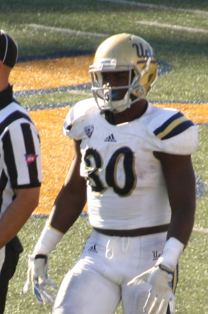 Myles Jack of UCLA Bruins